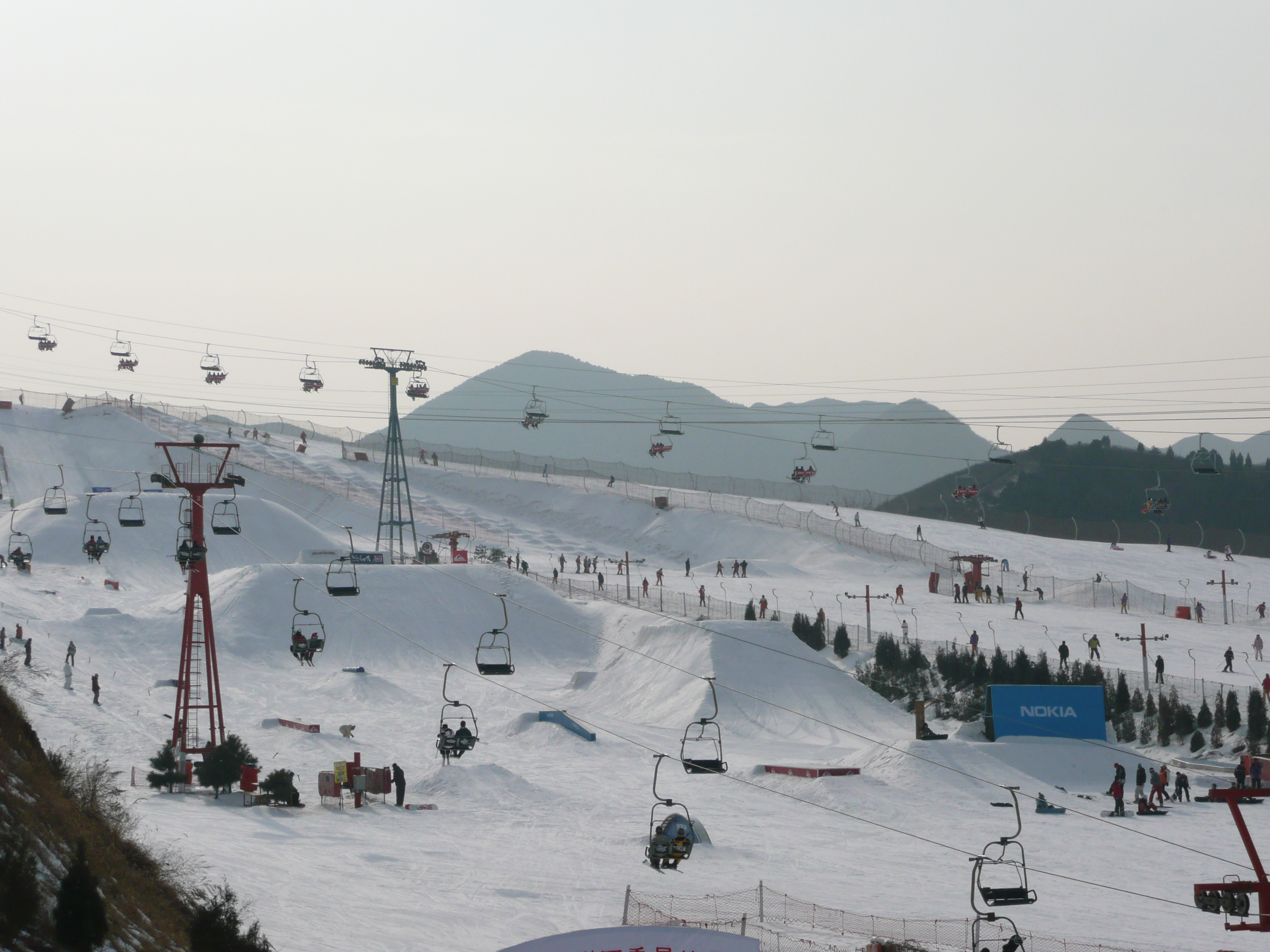 Nanshan Ski Village in China